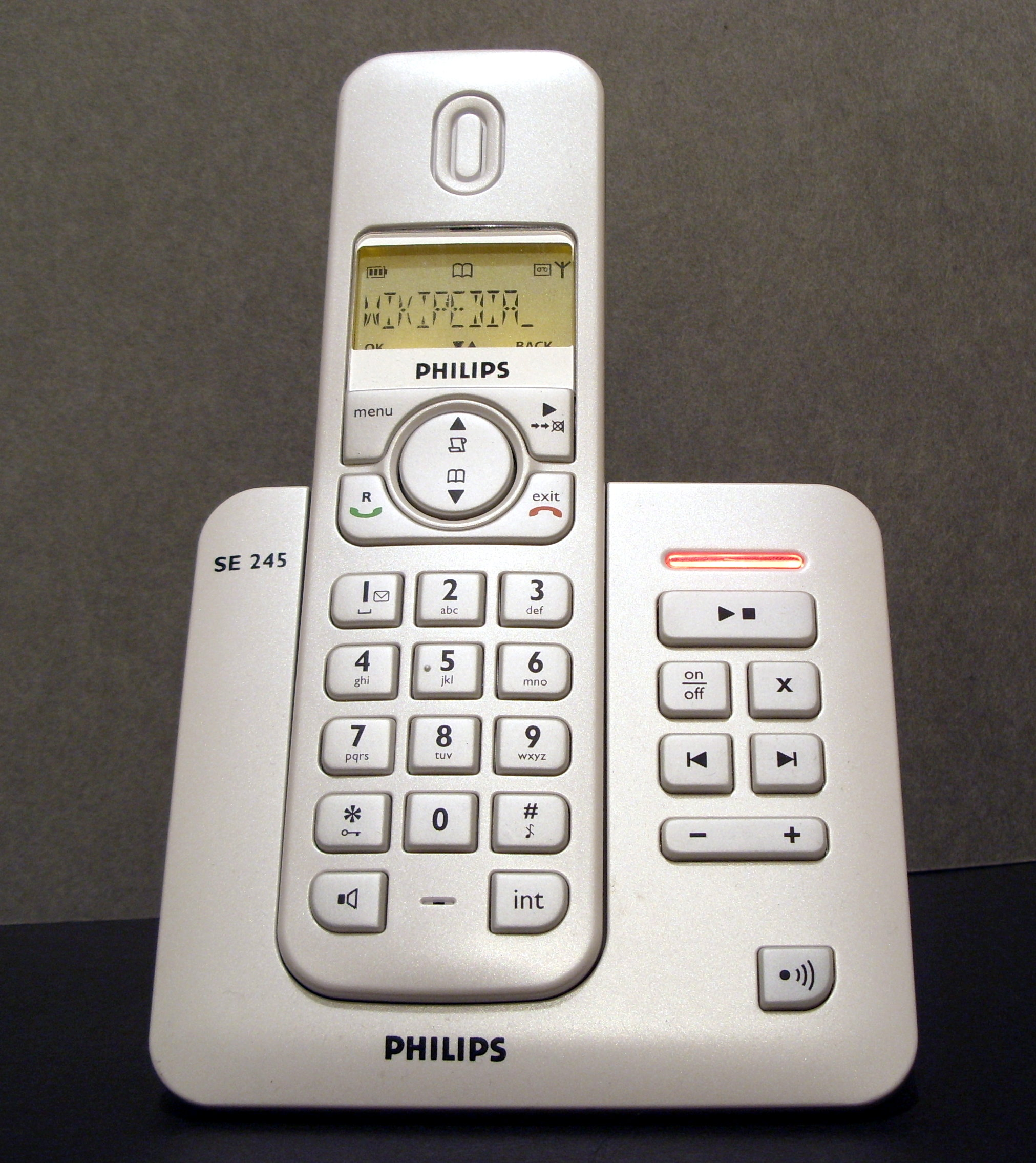 Aparat telefoniczny Philips SE245.